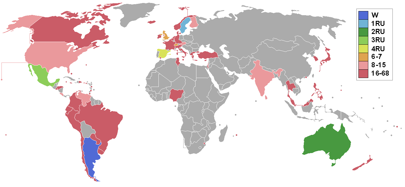 map created by joey80